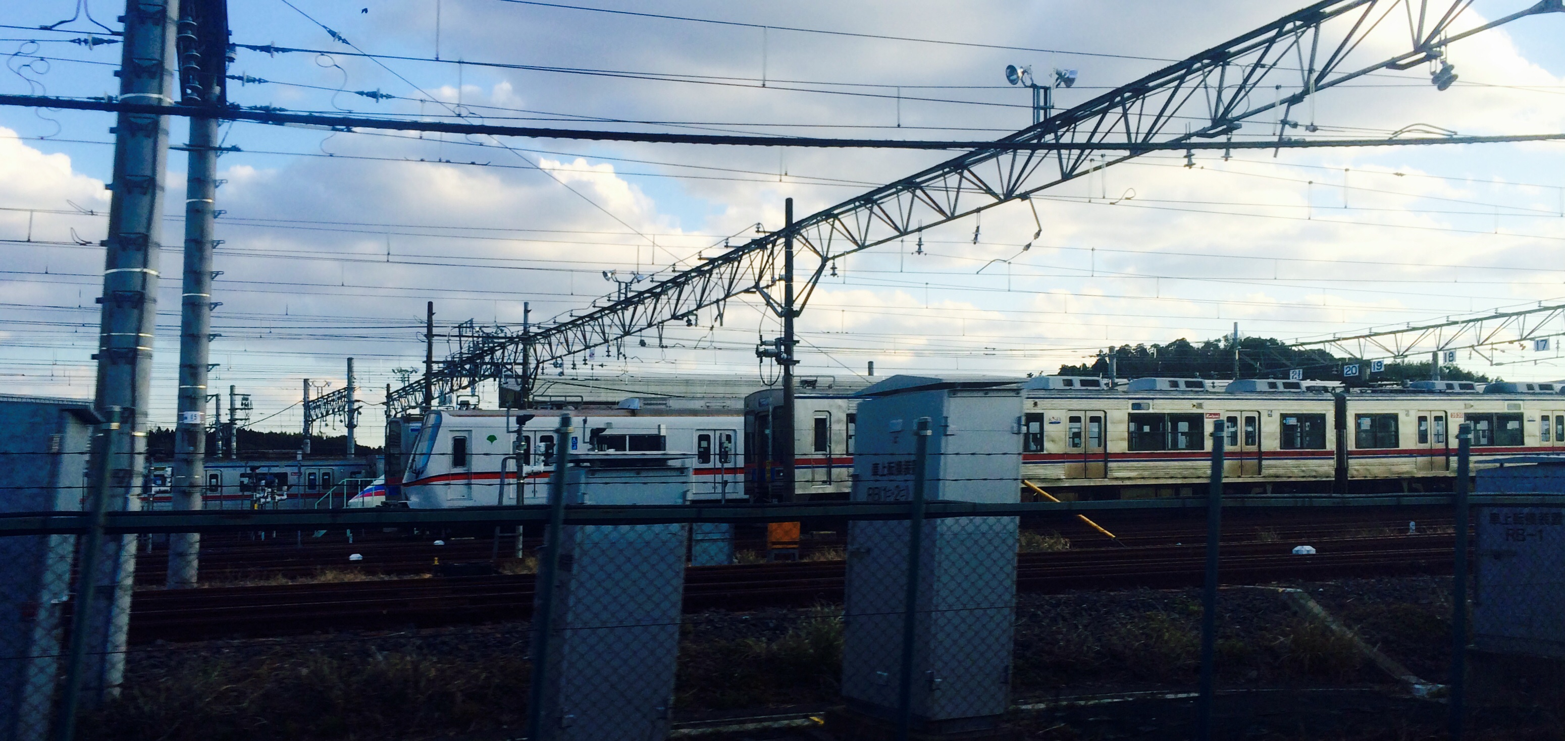 Keisei Electric Railway Sogo Depot in Shisui Town, Chiba Prefecture, Japan